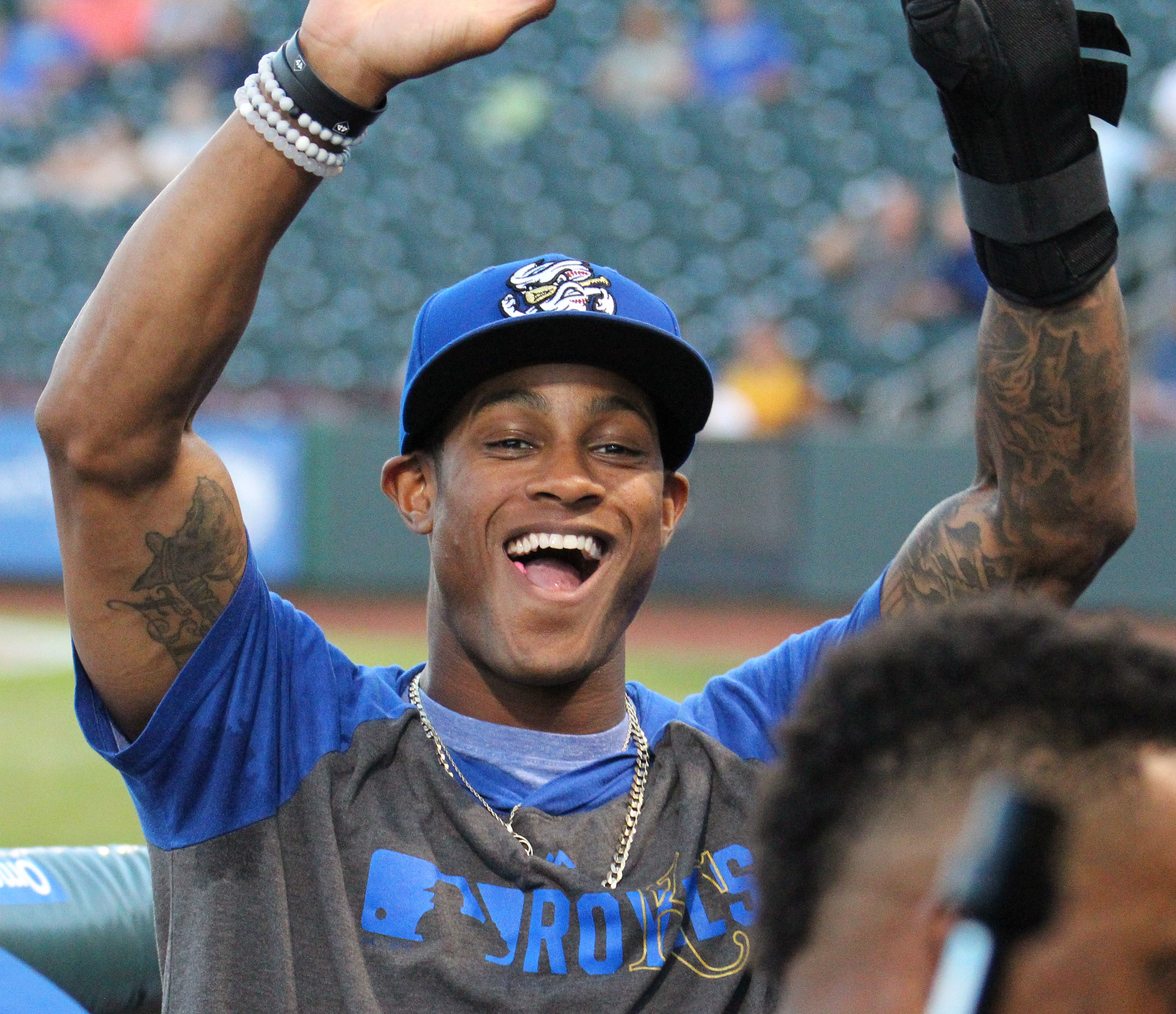 Nick Heath of the Omaha Storm Chasers in the dugout during a 2019 game at Werner Park in Nebraska.